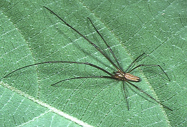 male Leucauge magnifica from Okinawa.